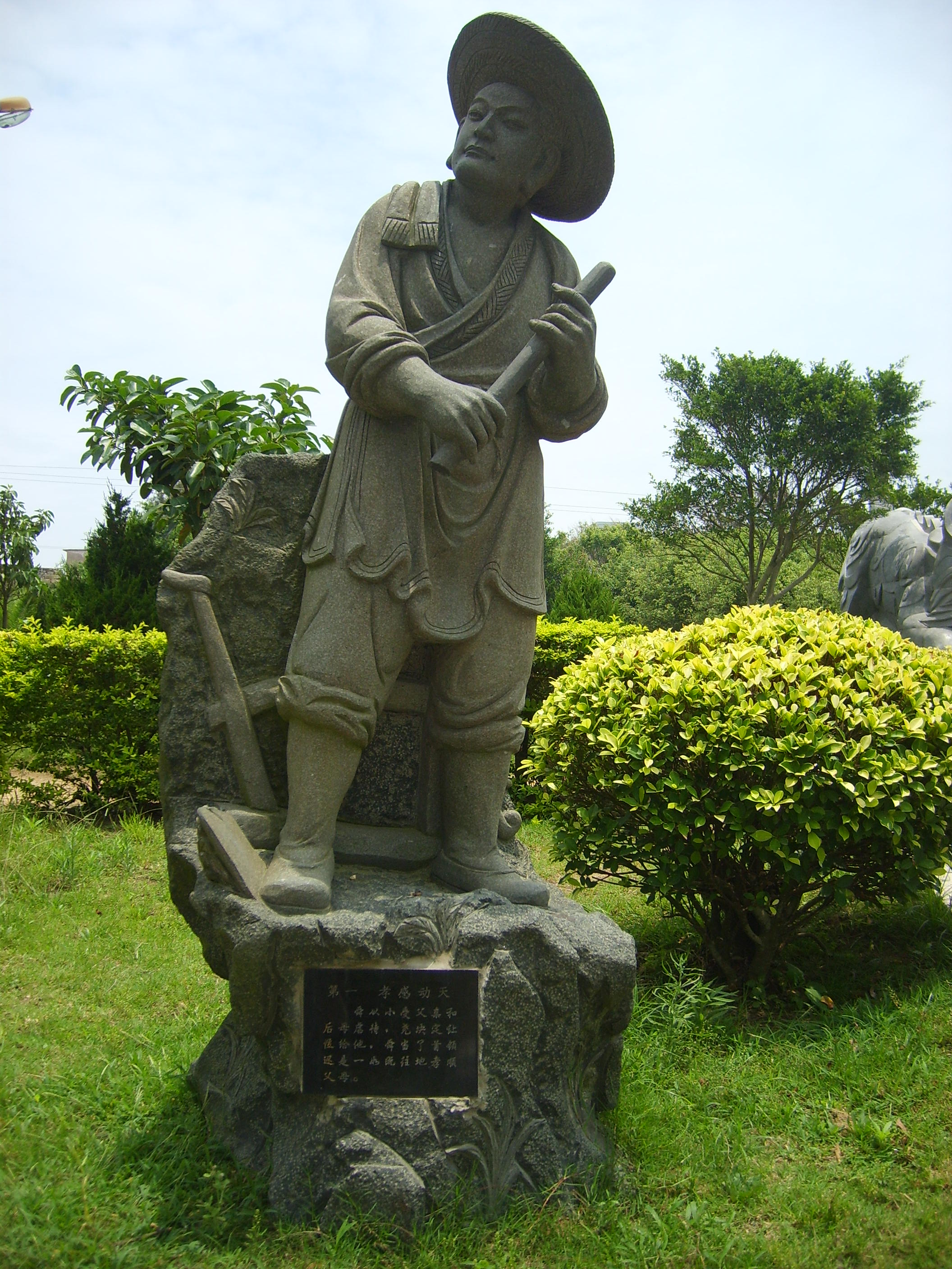 The Twenty-four Filial Exemplars - No. 1